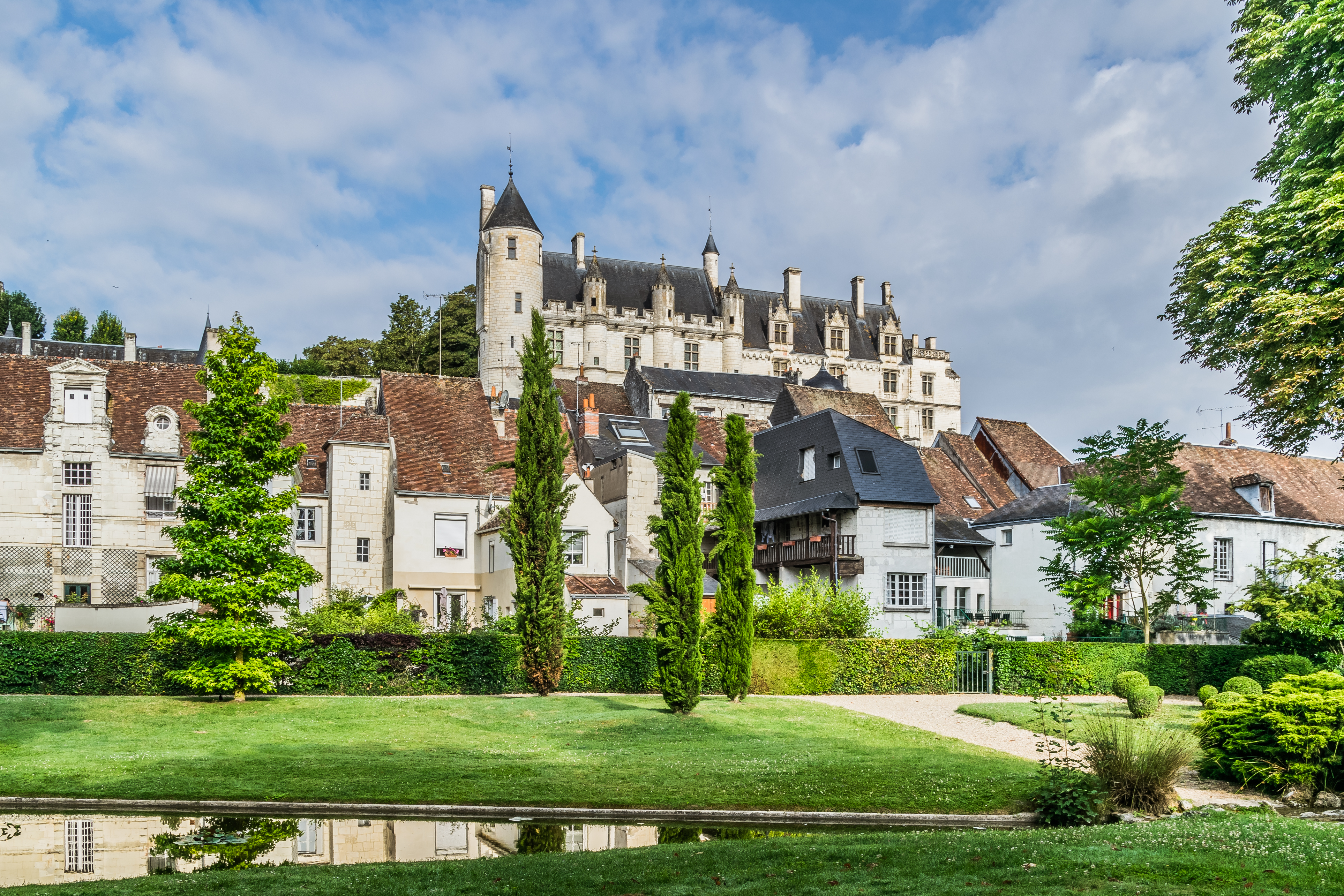 The royal appartments in Loches, Indre-et-Loire, France